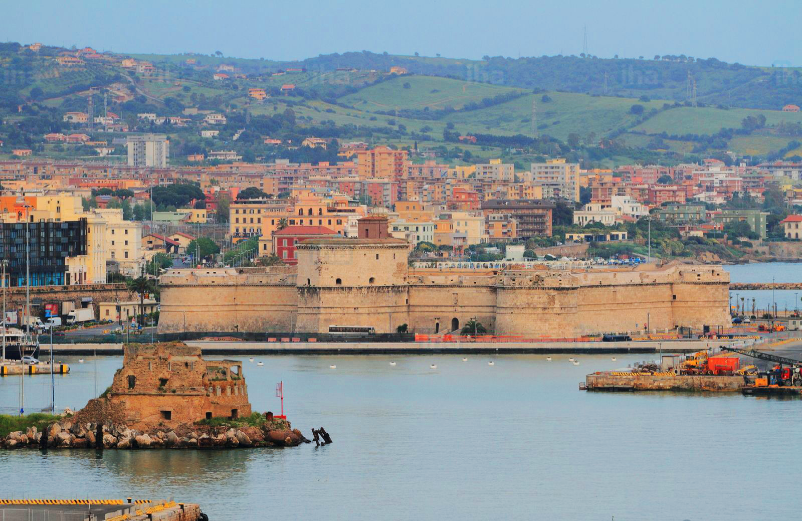 A view of Civitavecchia, Italy, from the port